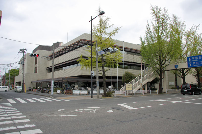 Hachioji Chuo Library, Hachioji, Tokyo, Japan